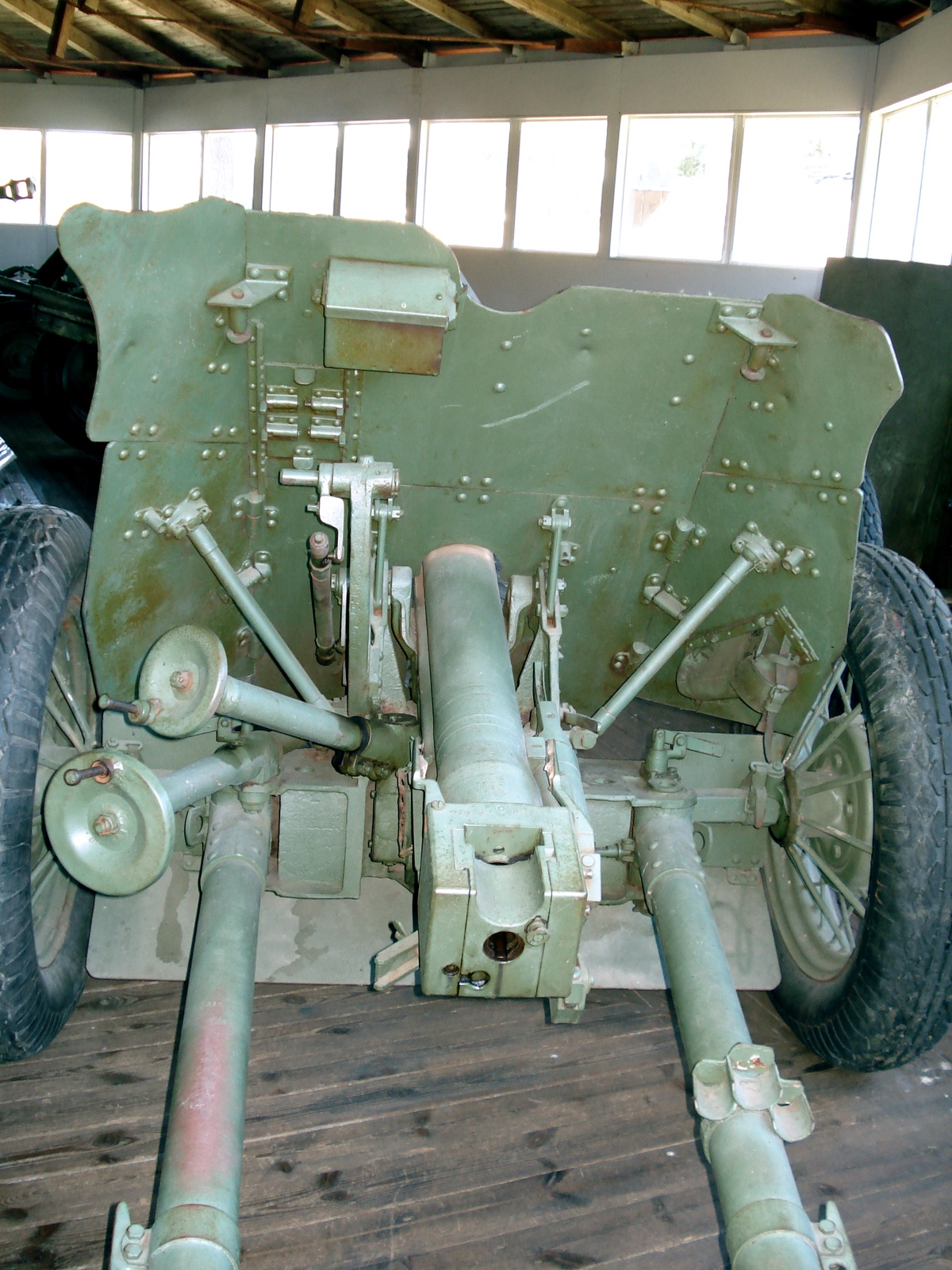 Soviet 45 mm M1932 anti-tank gun, displayed in Parola Museum. It is not clear whether this is the correct designation for this gun. The museum caption for it is shown here. Source: Photo by me, User:Balcer.